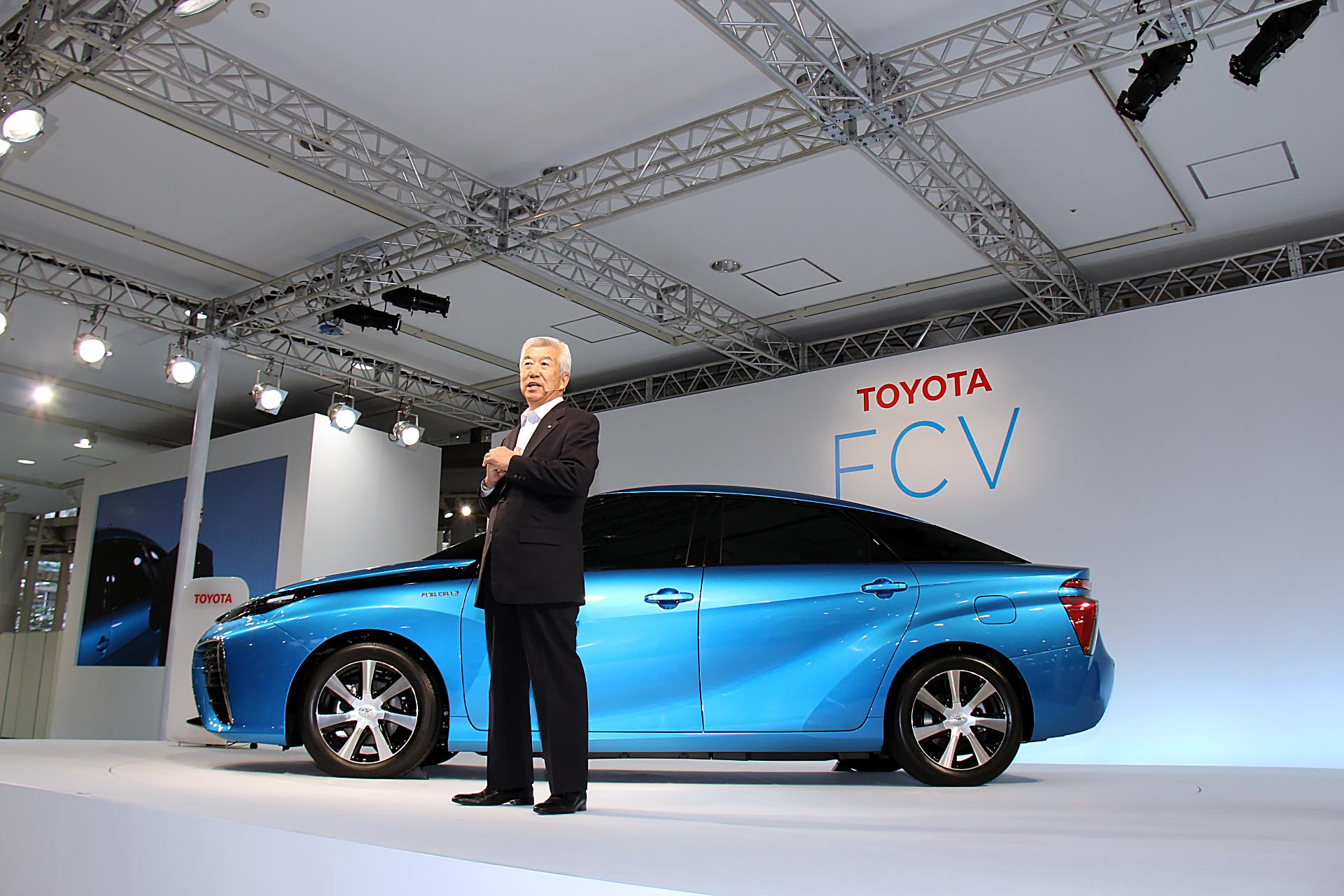 EVP Mitsuhisa Kato reveals the 2015 Toyota FCV hydrogen fuel cell vehicle to the media in Tokyo on June 25, 2014